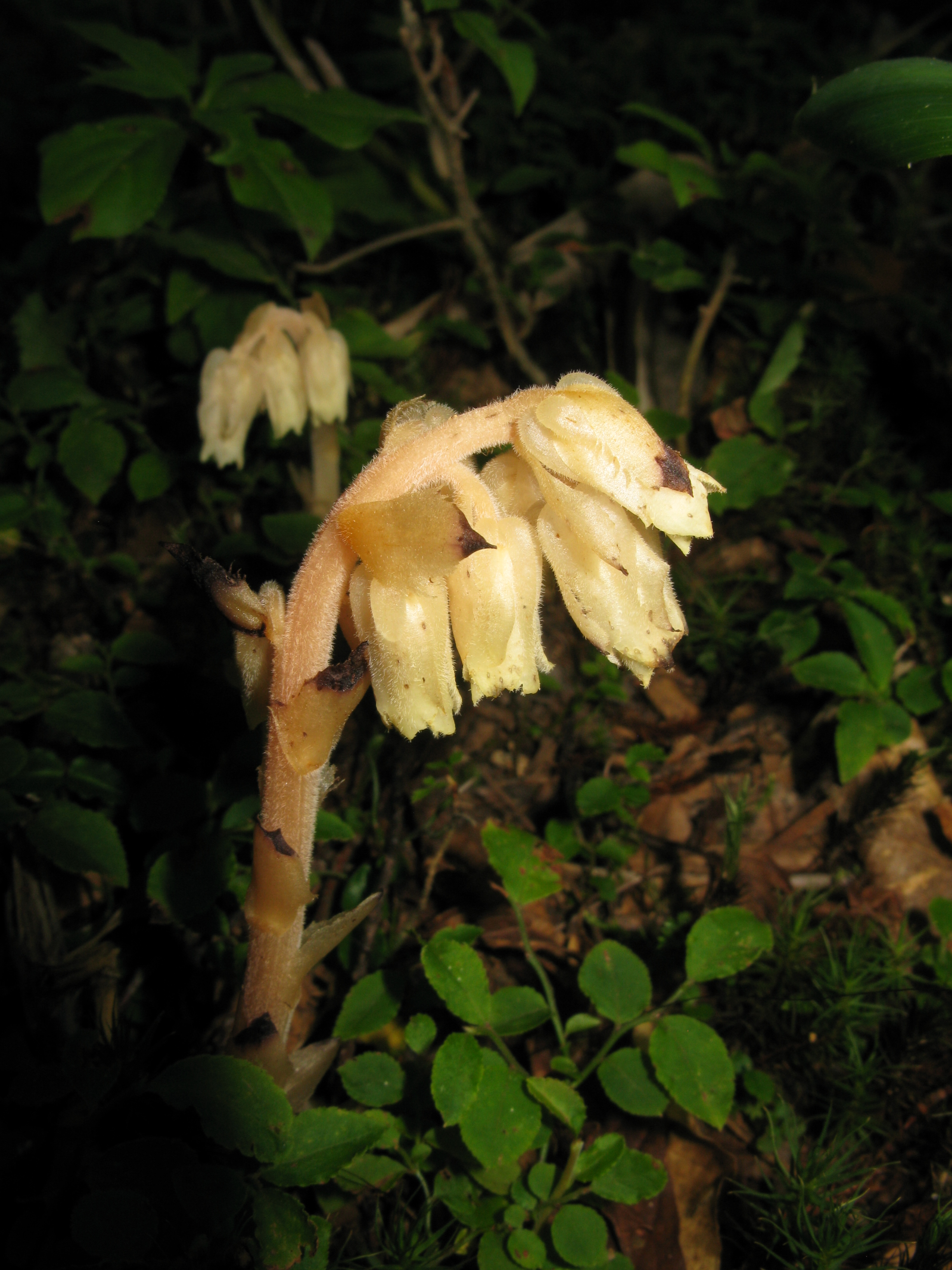 Monotropa hypopithys, Fukushima city, Fukushima pref., Japan